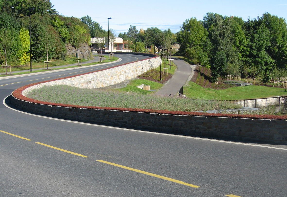 Vollen i Asker, Østengen & Bergo AS